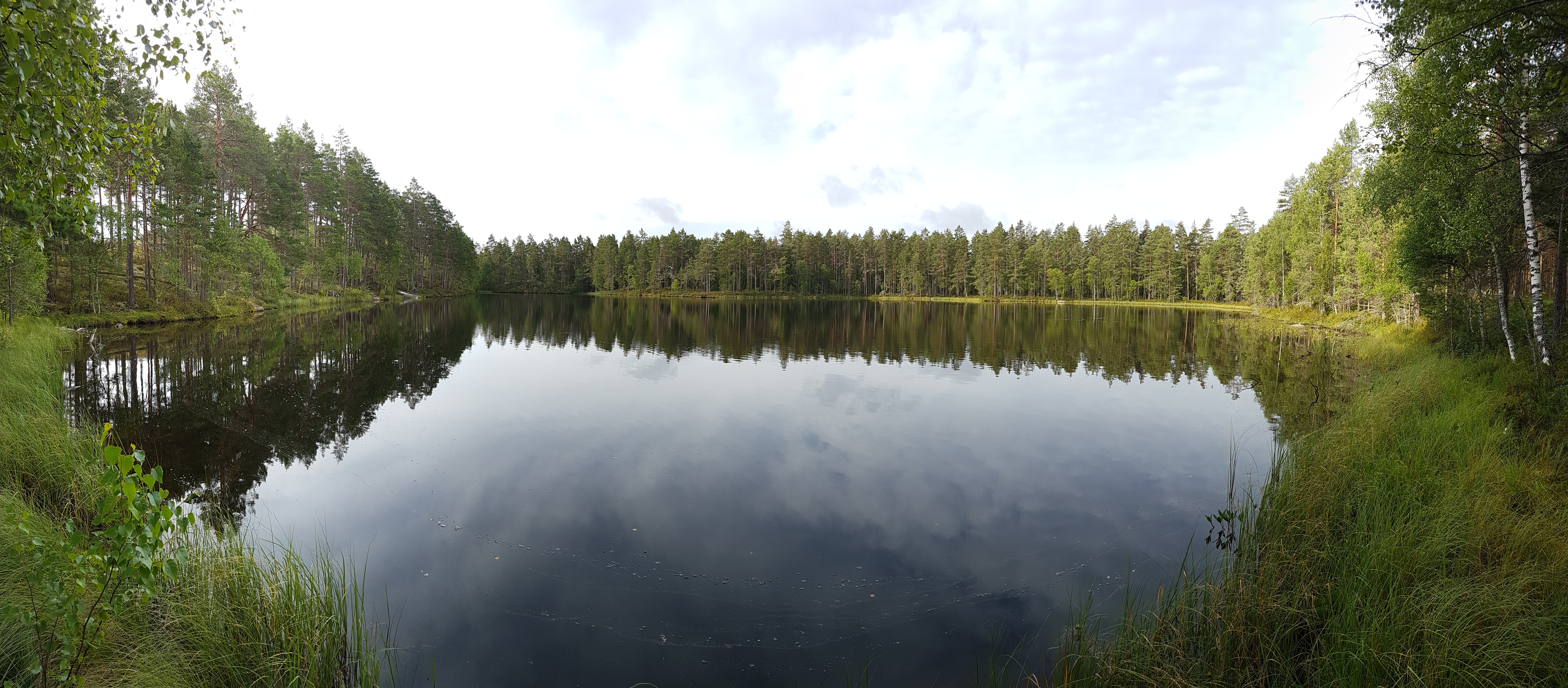 Sandgölen (Svinhults district, Östergötland) photographed from north in late July 2017.